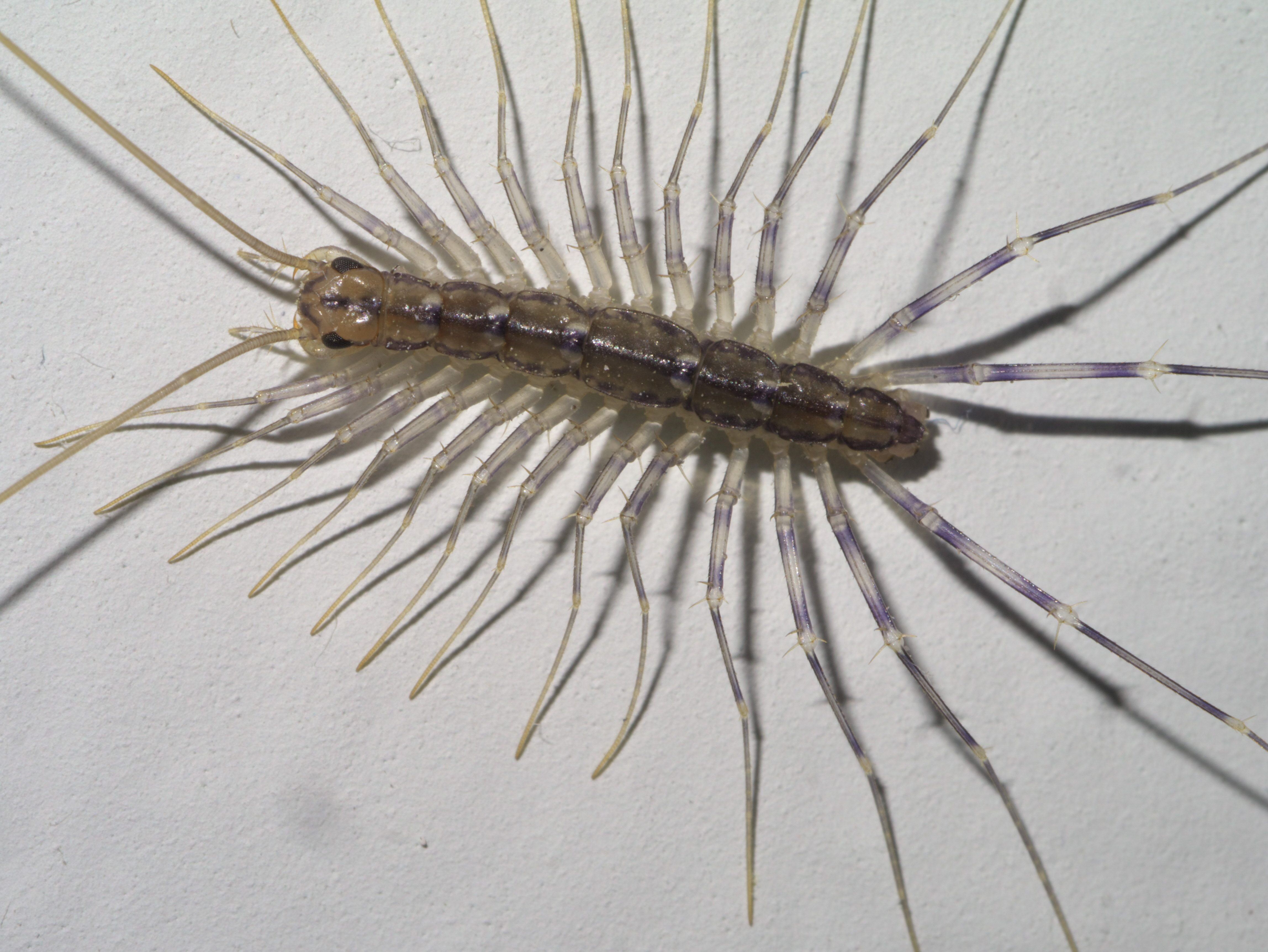 Scutigeromorpha, house centipedes, ID Confidence: 90